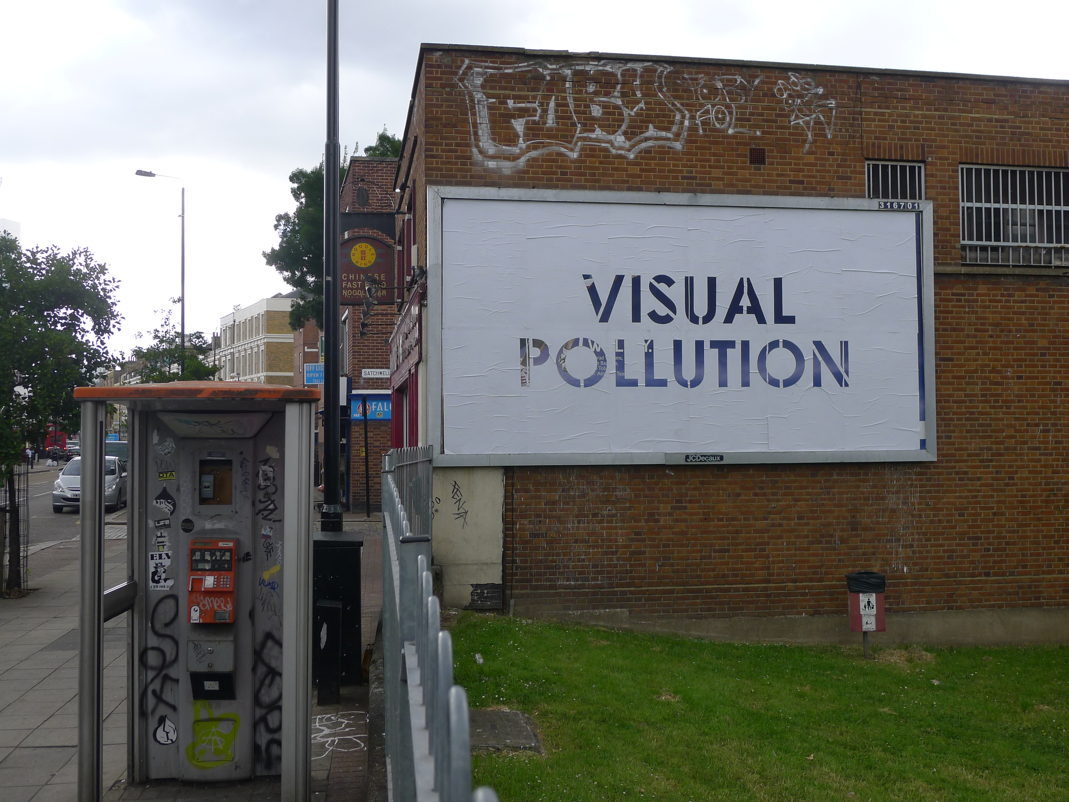 Visual Pollution by Mobstr in Bethnal Green Road, London.